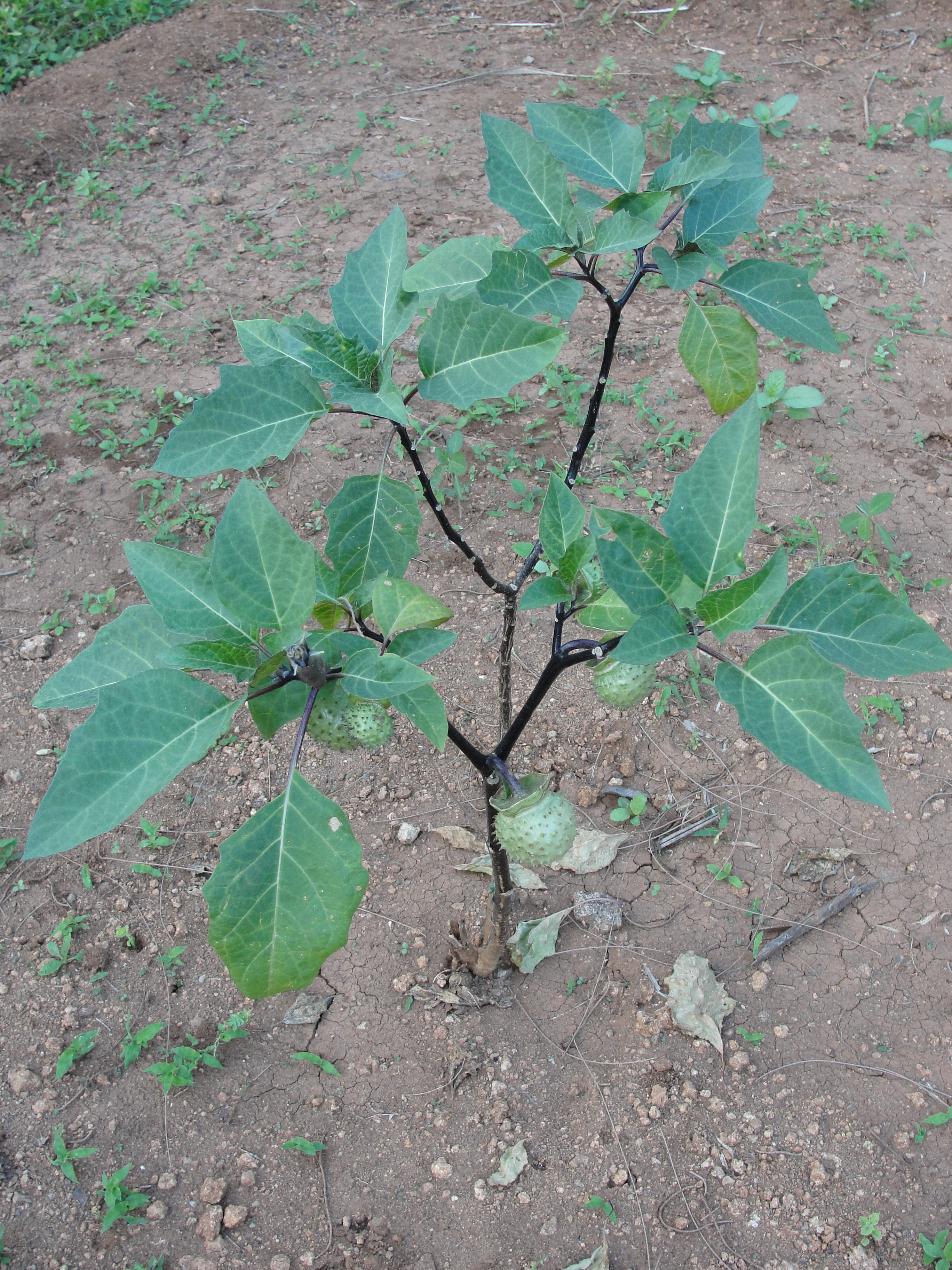 Datura metel. Location: A herbal Garden in Forest Extension Center, Sithar Koyil, Salem, Tamil Nadu, India.